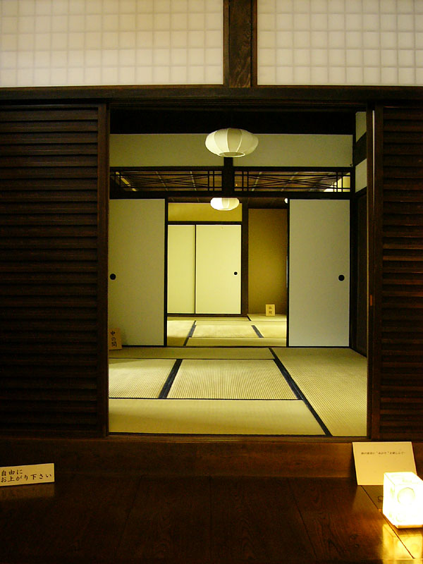 A Washitsu of Old Ishibasi house in Itami, Hyogo, Japan.